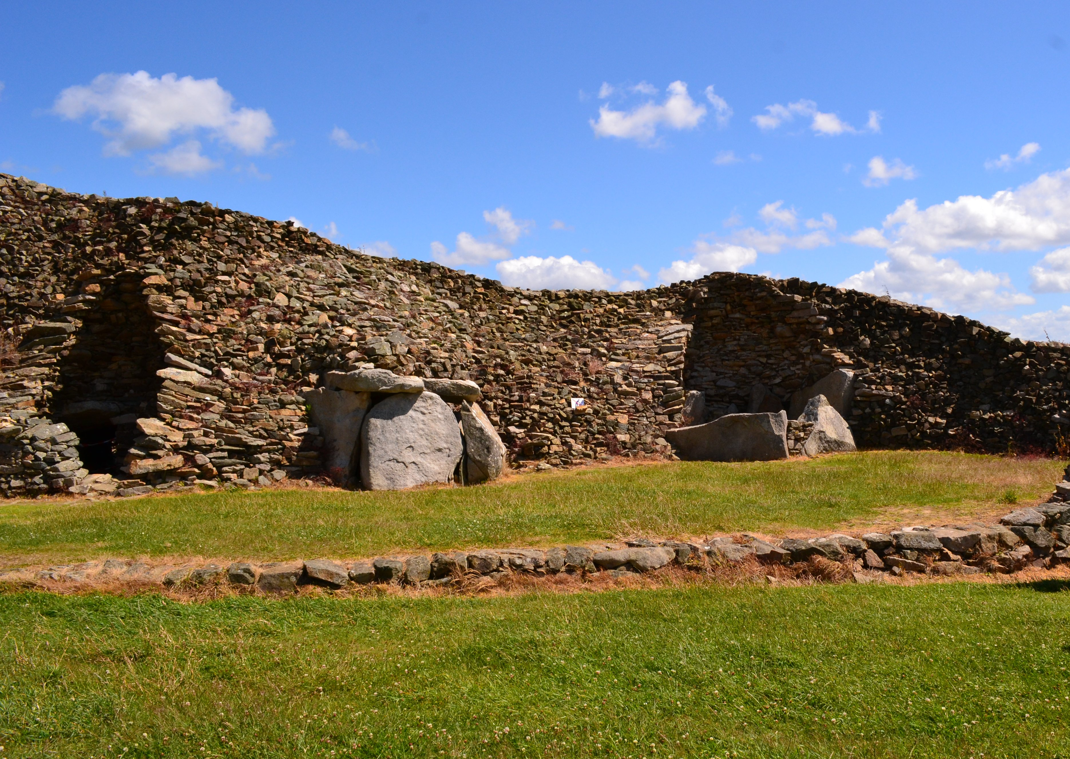 Qarry destruction done during 20th century